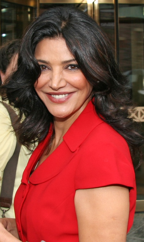 Shohreh Aghdashloo at the 2008 Toronto International Film Festival